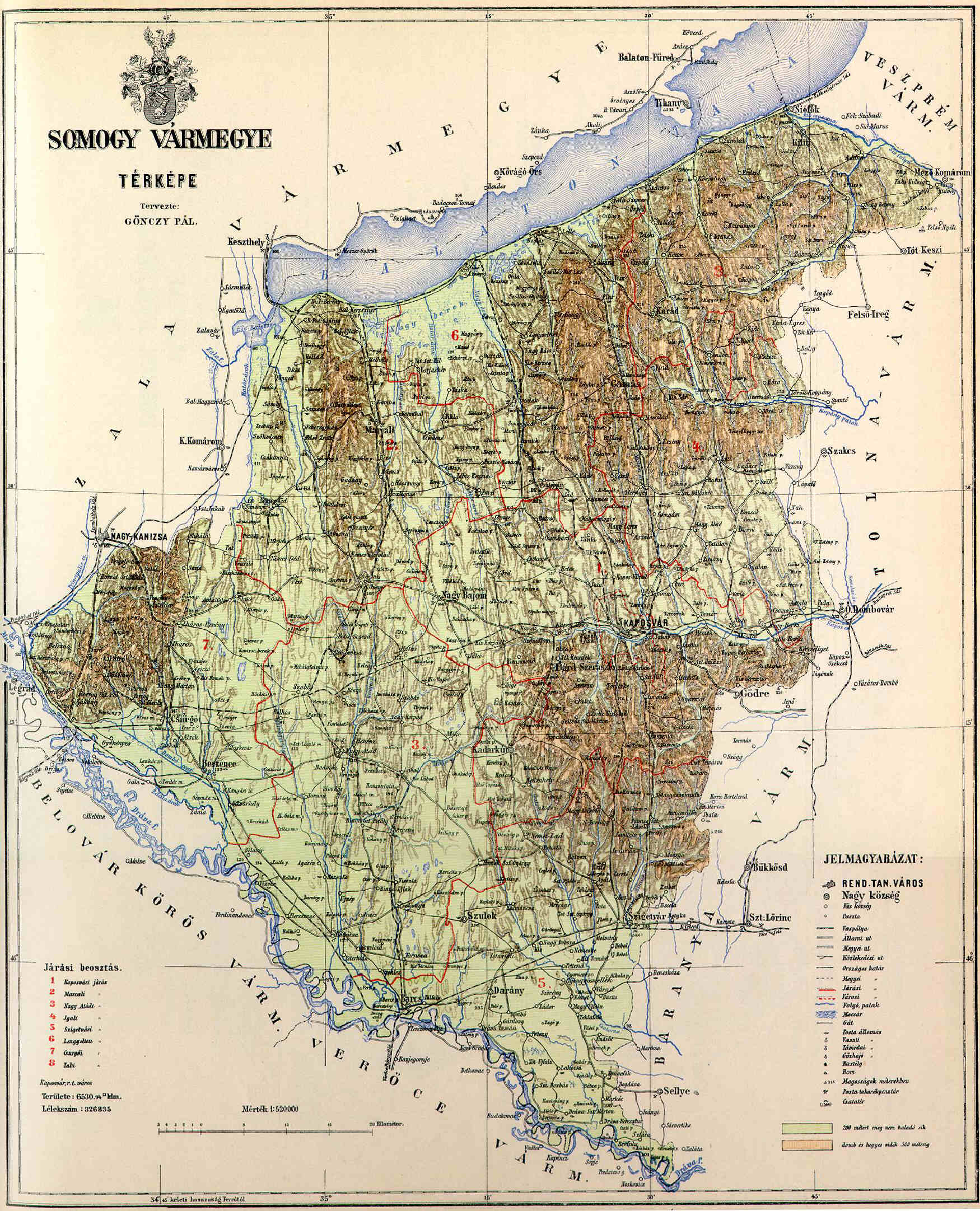 County of Somogy in the pre-Trianon Kingdom of Hungary. Komitat Somogy w Królestwie Węgier przed traktatem w Trianon.